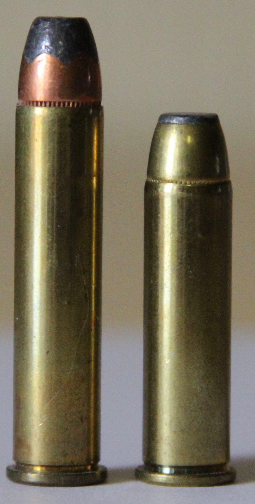 .357 Maximum cartridge on the left and a .357 Magnum cartridge on the right.